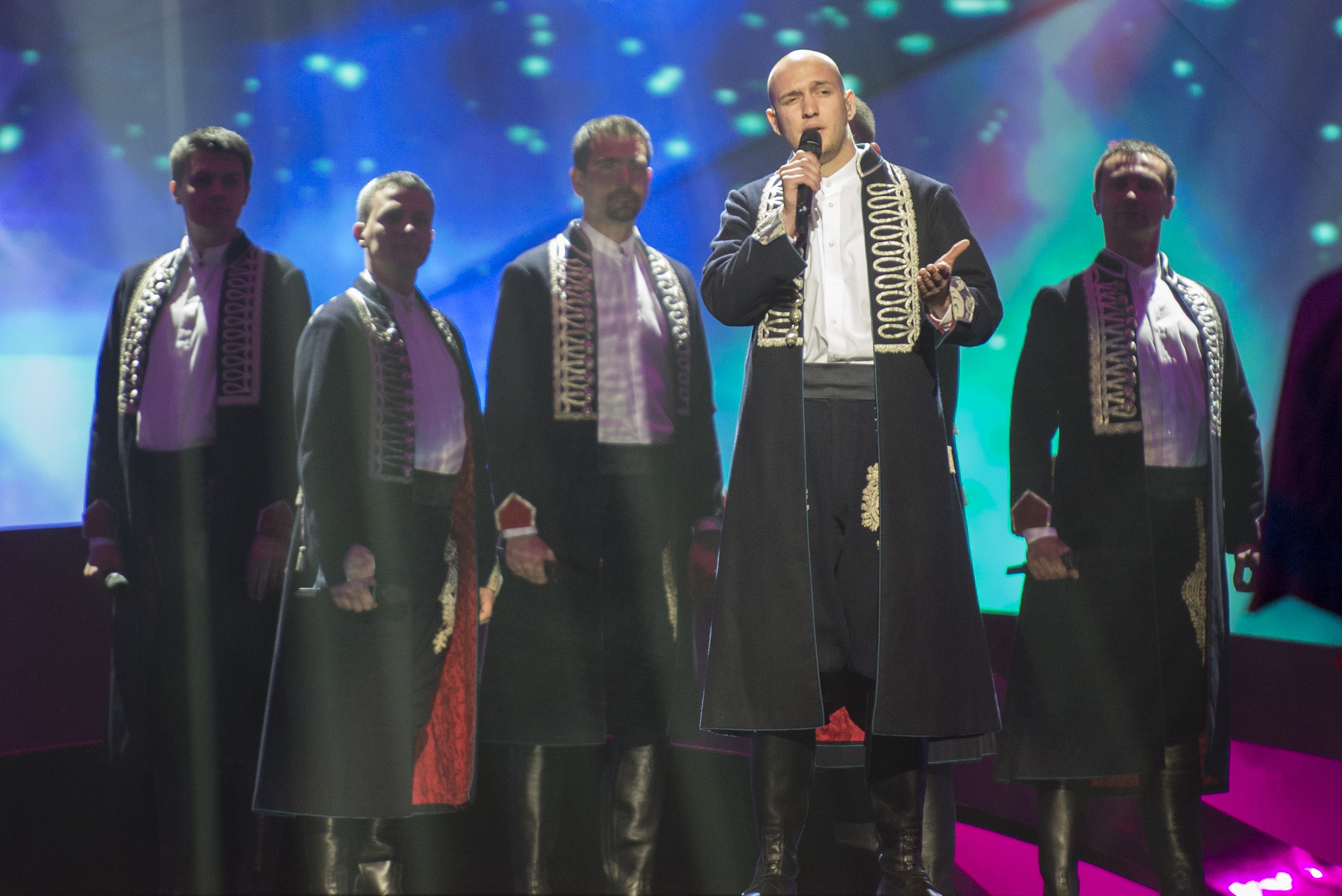 Klapa s Mora representing Croatia with the song "Mižerja" during the first dress rehearsal of the first semi final of the Eurovision Song Contest 2013 in Malmö. (Help translate this text)